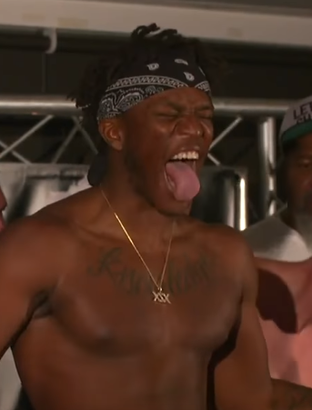 Youtuber and rapper KSI during a weigh in for his white collar boxing match with Logan Paul in on August 25, 2018